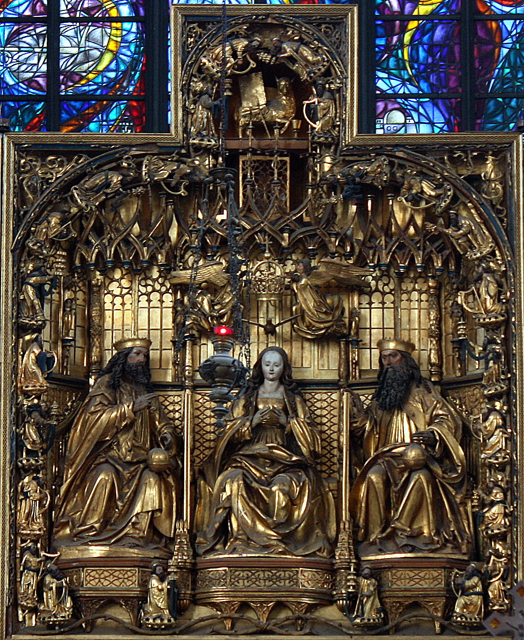 Gdańsk, St. Mary's Church